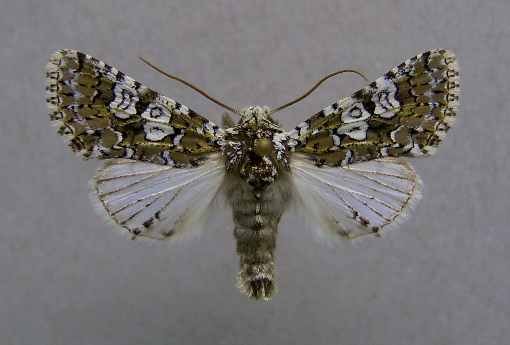 Lamprosticta culta, Pusztavacs Hungary